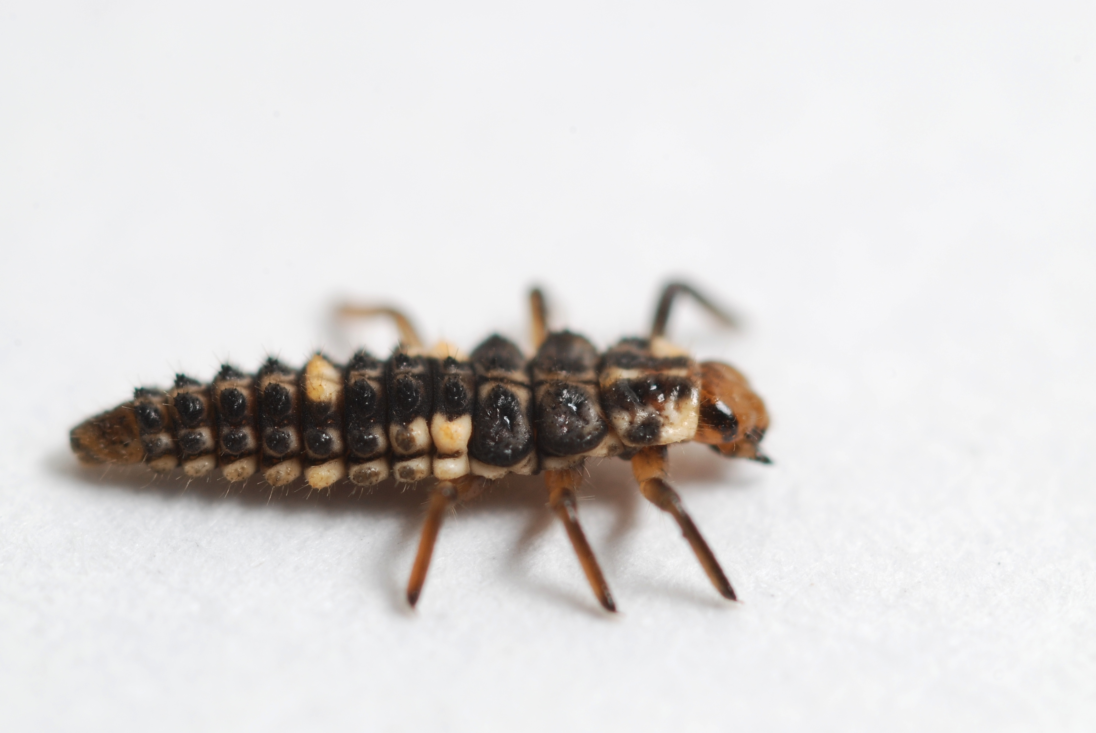 4th stage larva